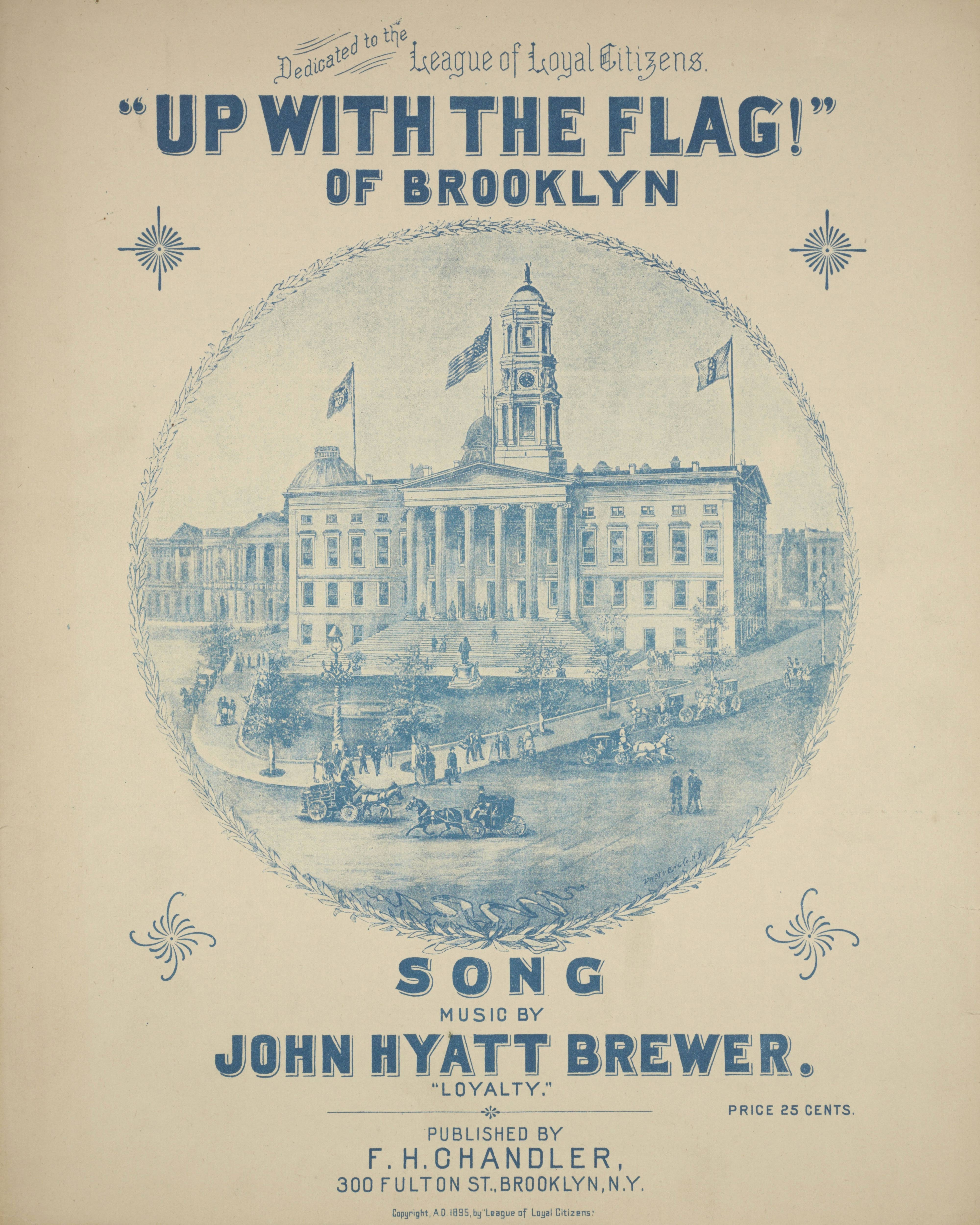 Sheet music for "Up With the Flag! (of Brooklyn)"